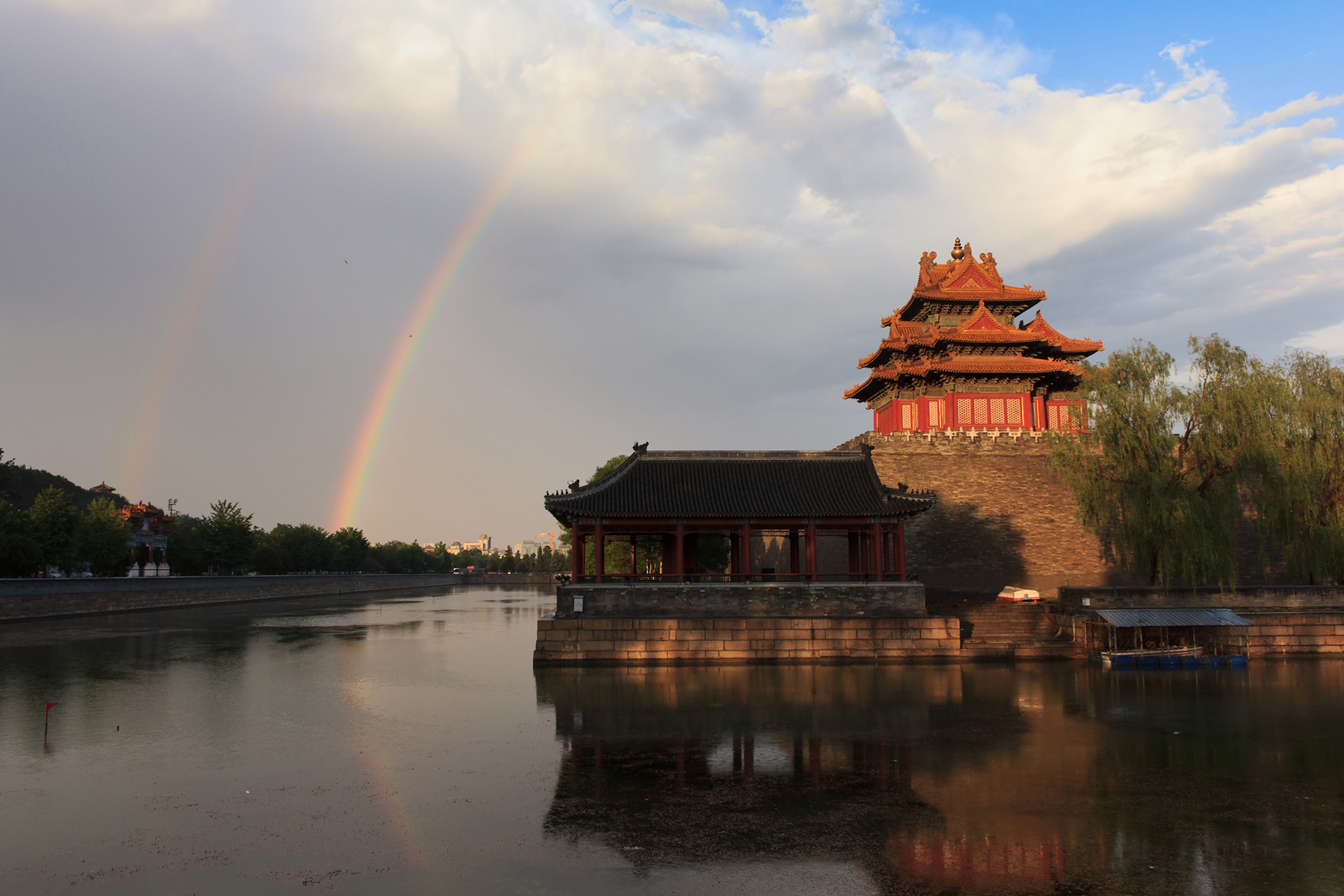 The Northwest Corner Tower of the Forbidden City with Double Rainbow